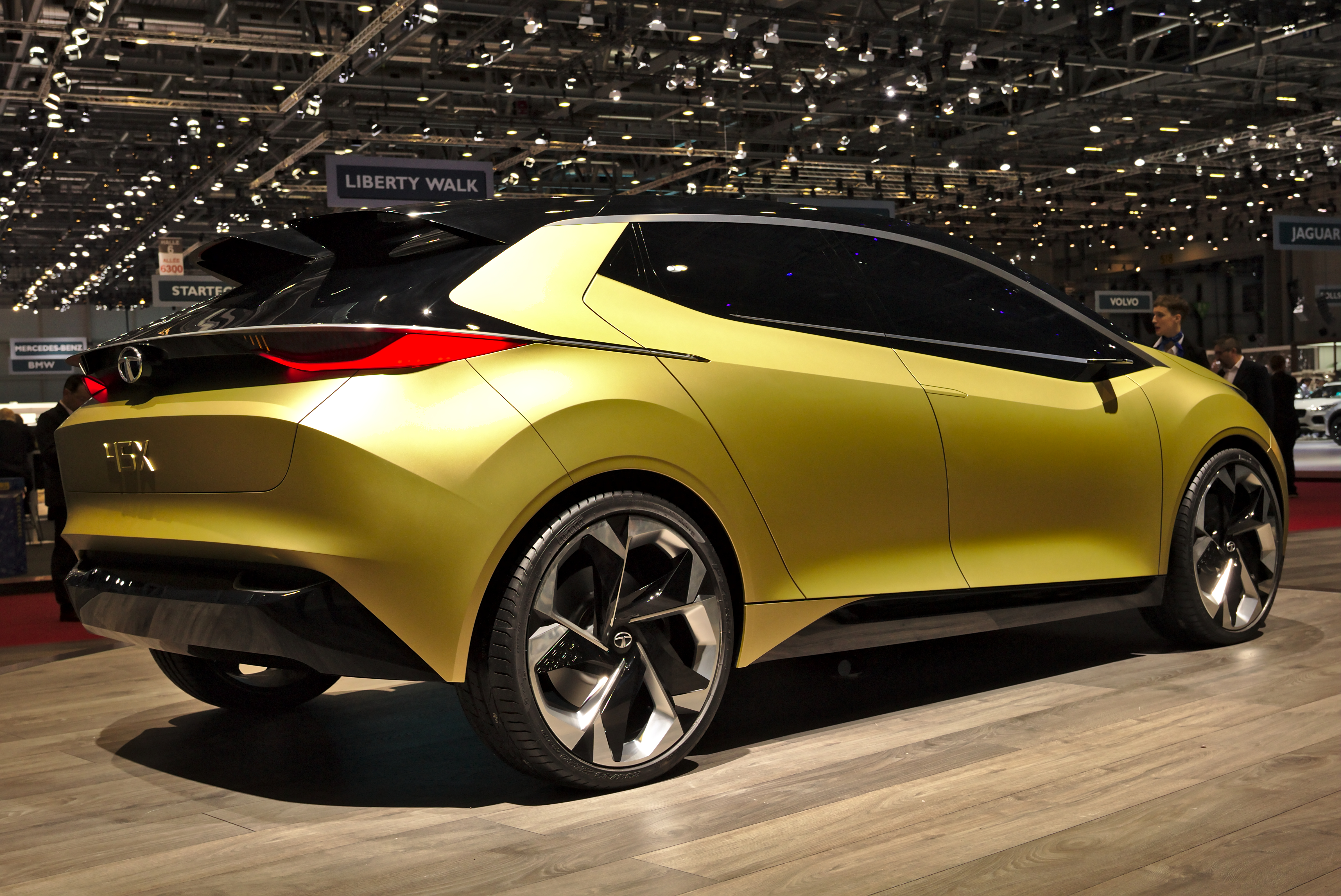 Tata ​45X Concept at Geneva Motorshow 2018